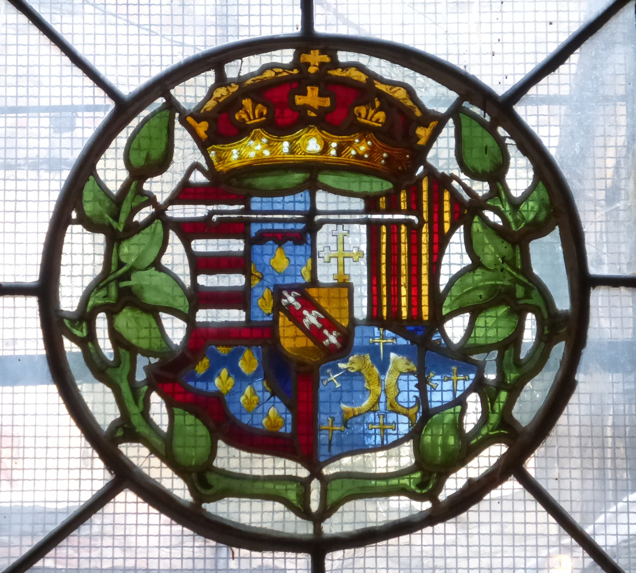 A rare example of stained glass surviving from the period before the Scottish Reformation in 1560.